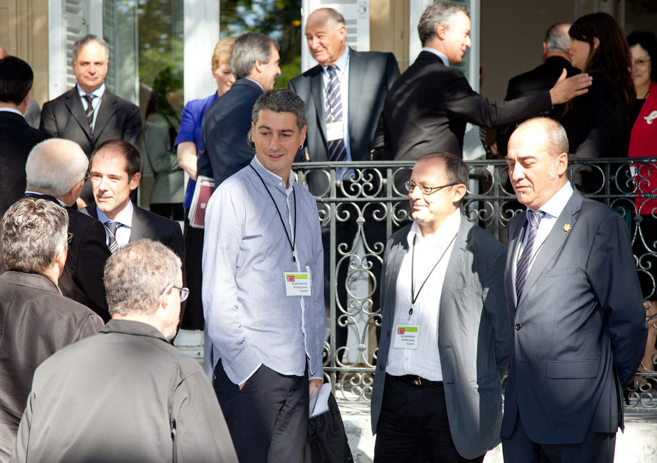 In the center, from left, Oskar Matute, Juan Karlos Izagirre and Martin Garitano at the International Conference to Promote the resolution of the conflict in the Basque Country